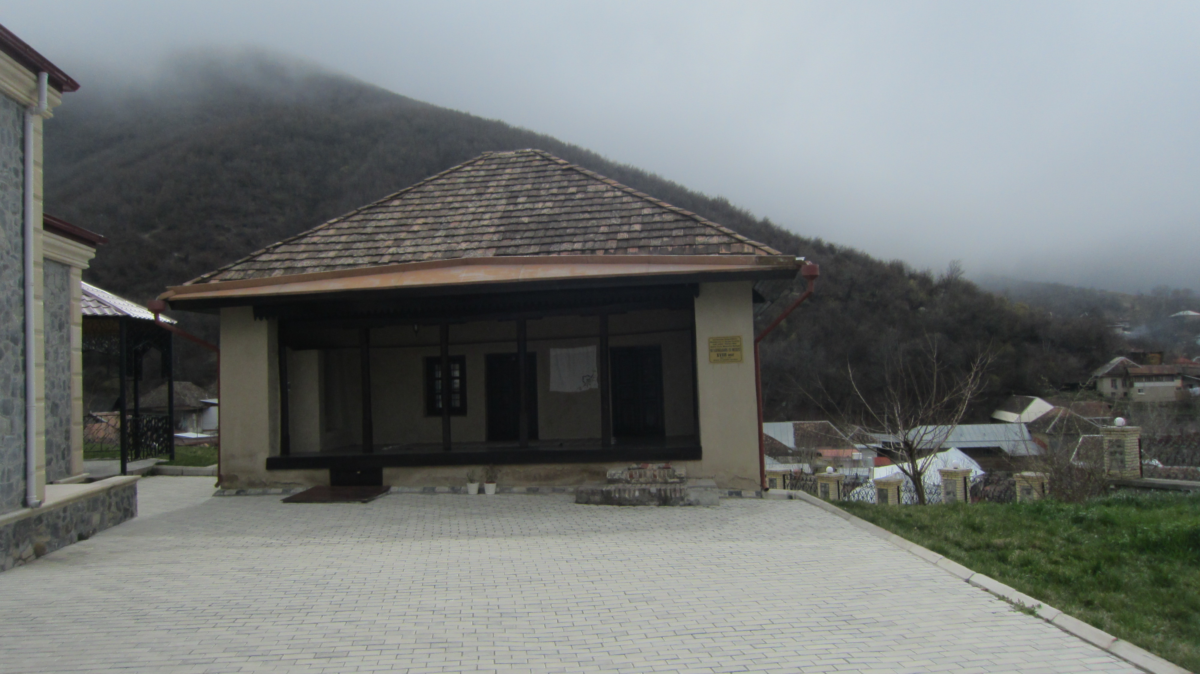 house Akhundov in Sheki